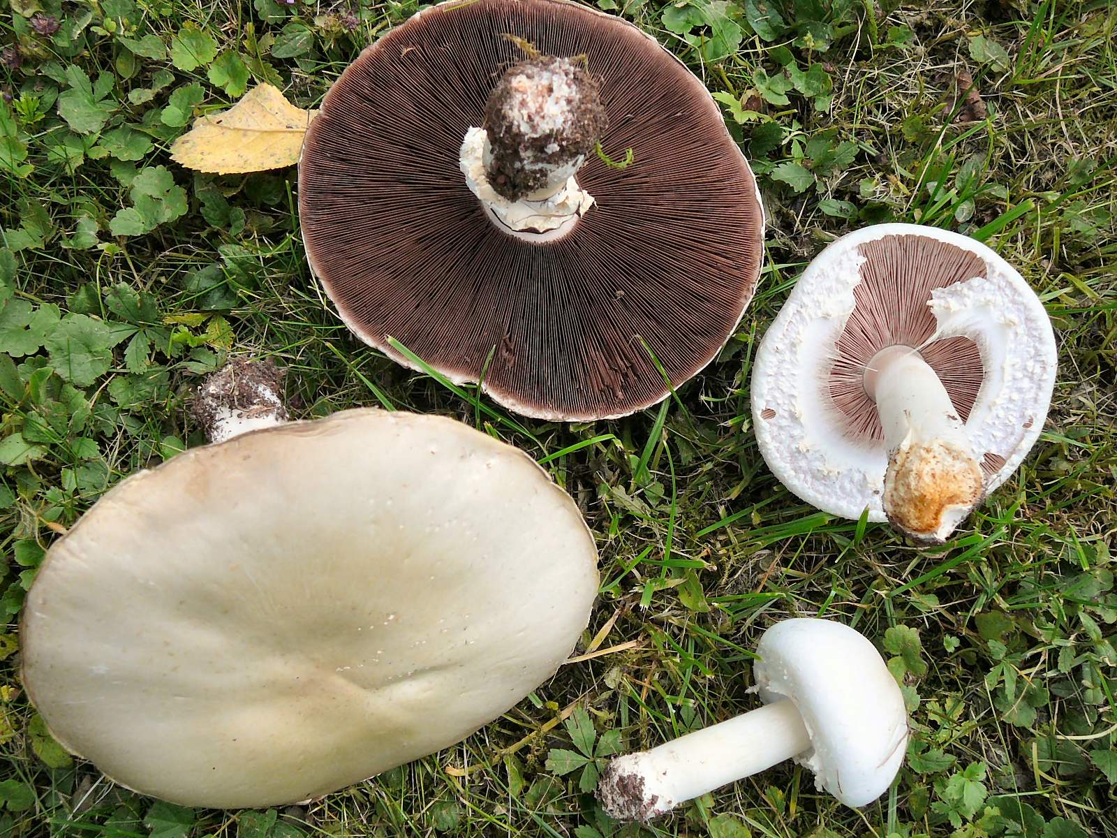 Agaricus arvensis, Stuttgart, Germany. Found in August on a lawn, around a Maple tree. Biggest: 15cm of diameter. Smell of anise when cut, very slow yellowish oxidation. Ring but no volva.